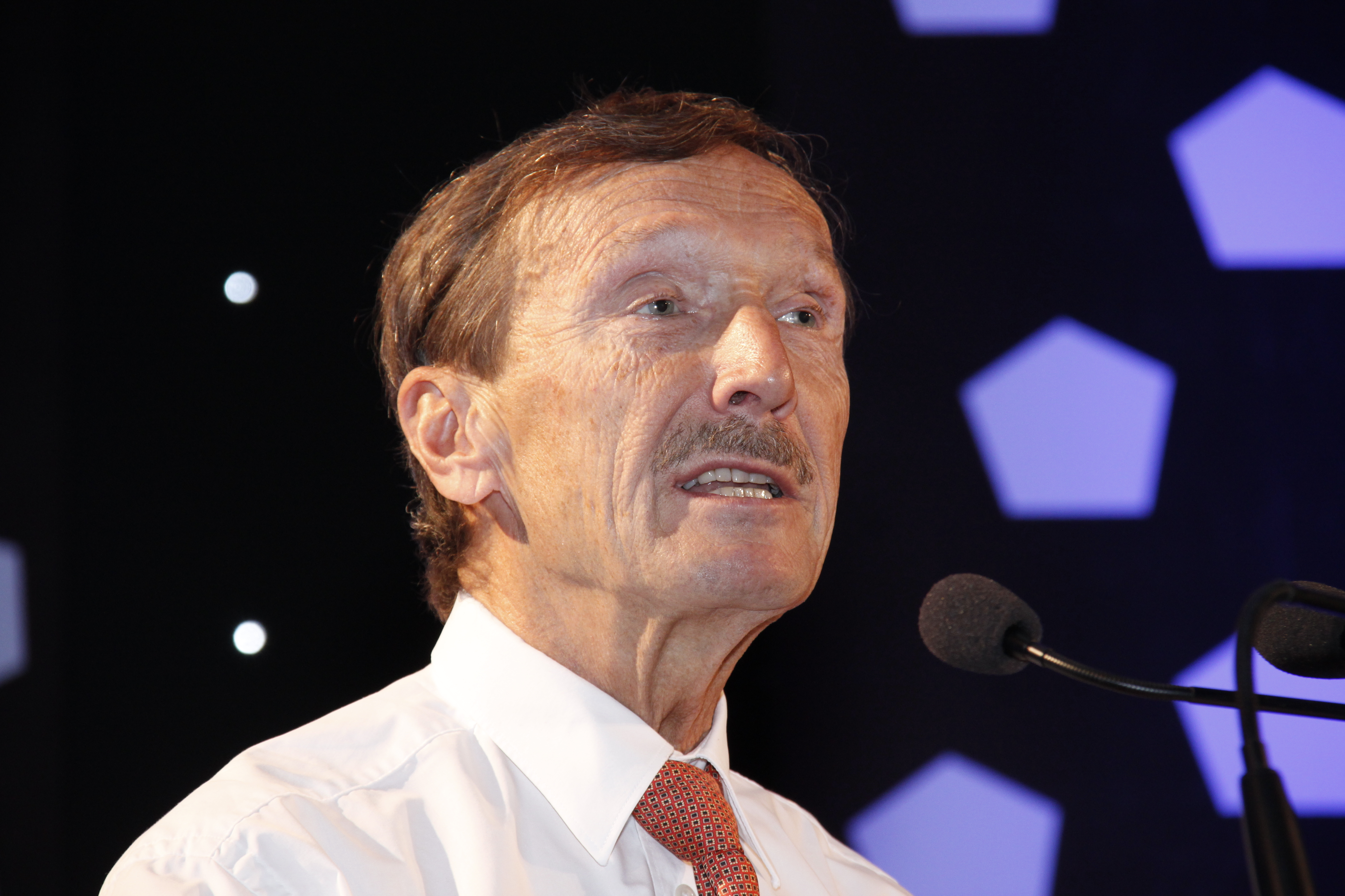 Rolf zinkernagel at the Erudite Conclave 2011 organised by Class of 2005 of Medical College Thiruvananthapuram, India